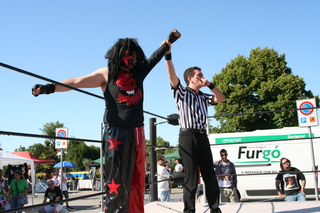 TCW wrestler Break Bones